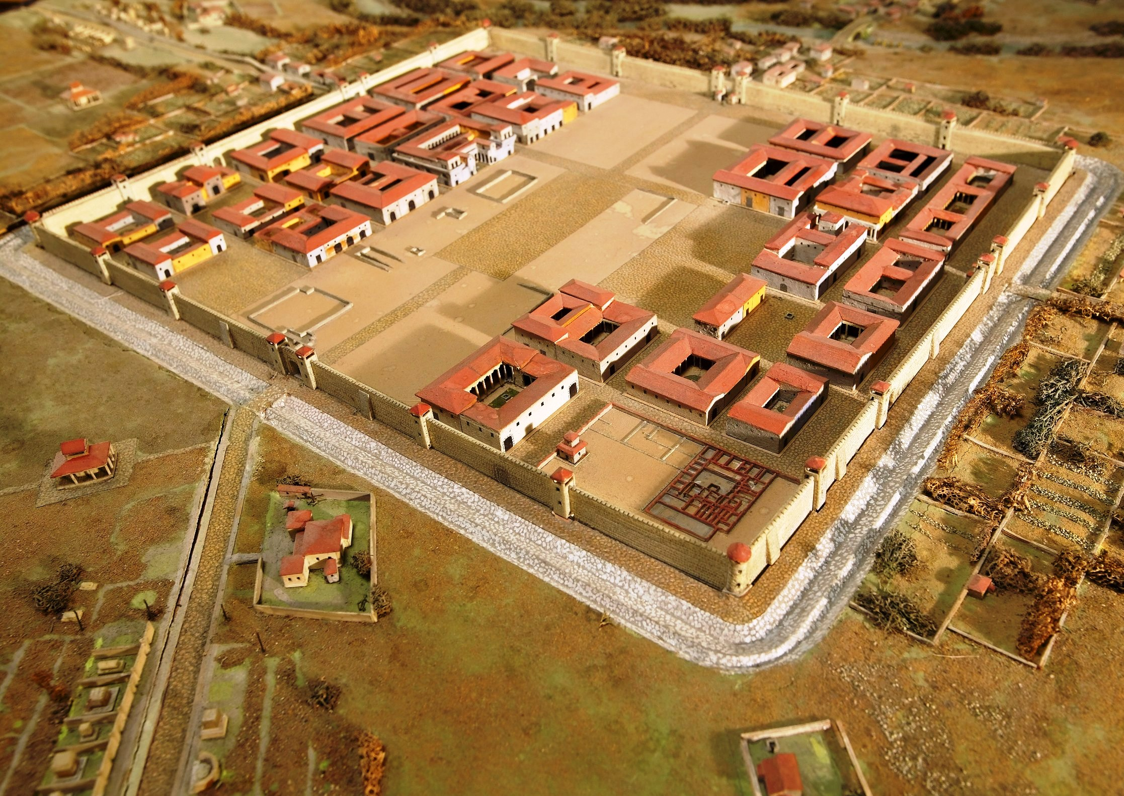 Emona na maketi iz začetka 20. stoletja. Predmet hrani Muzej in galerije mesta Ljubljane.